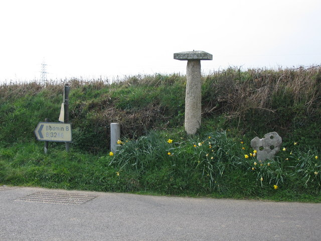 Guidepost and Celtic cross on the B3266 A view looking west across the B3266 towards the tall guidepost and remains of a Celtic cross at the junction with the lane to Treveighan.